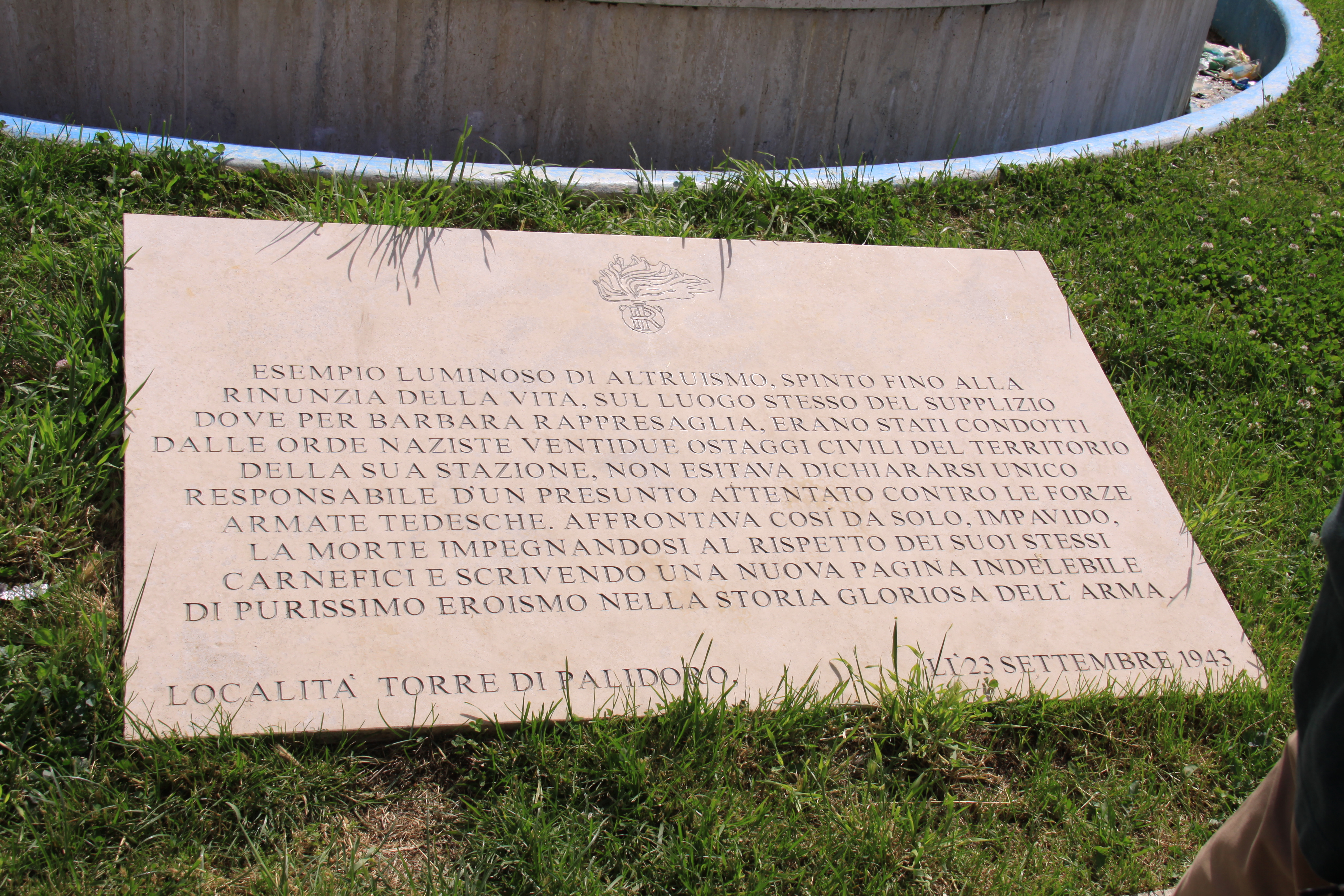 Memorial plaque (in Italian) about Salvo D'Acquisto near the statue honoring him at the train station in Cisterna, Italy